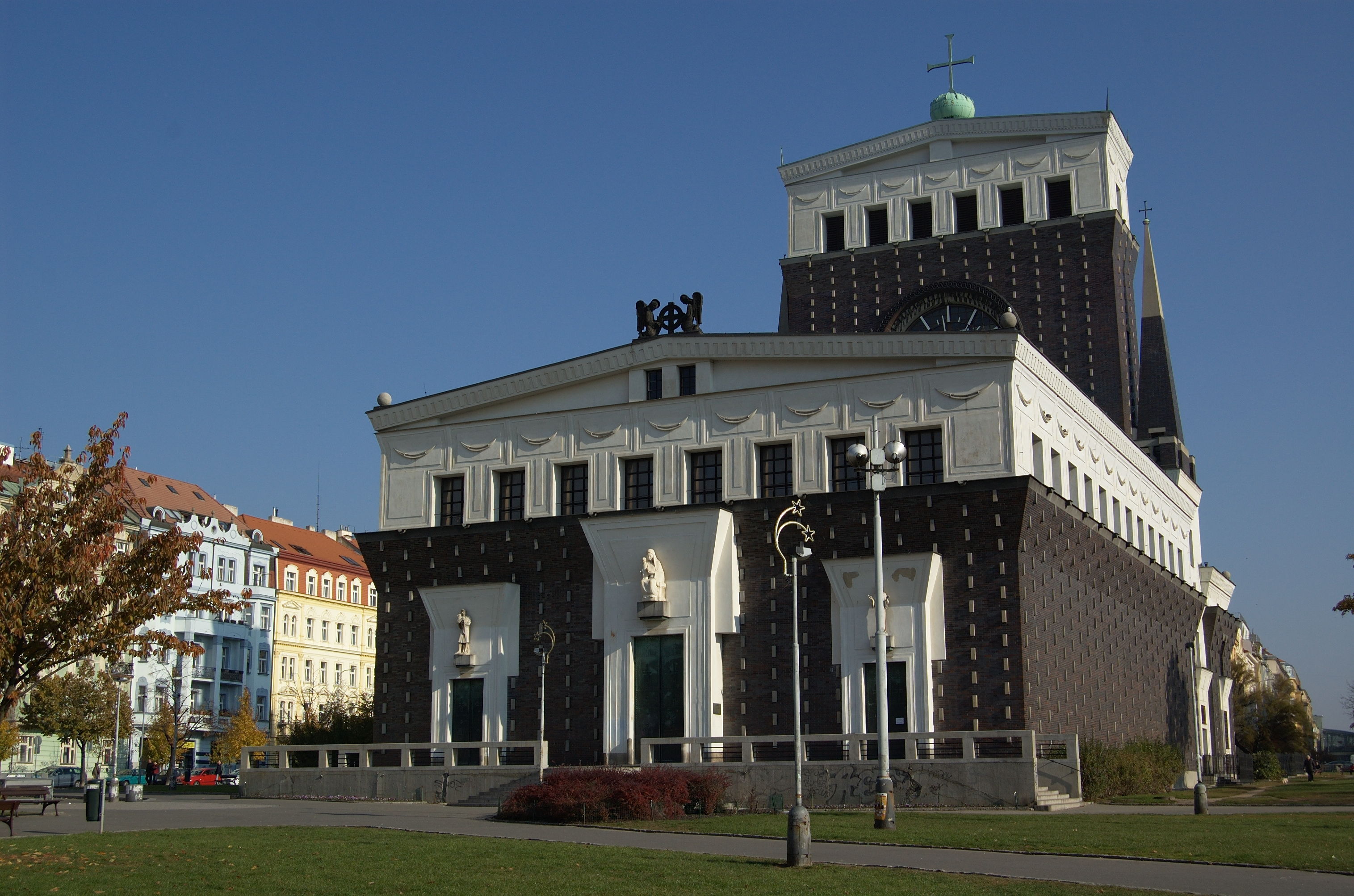 Church of the Sacred Heart (Prague-Vinohrady).